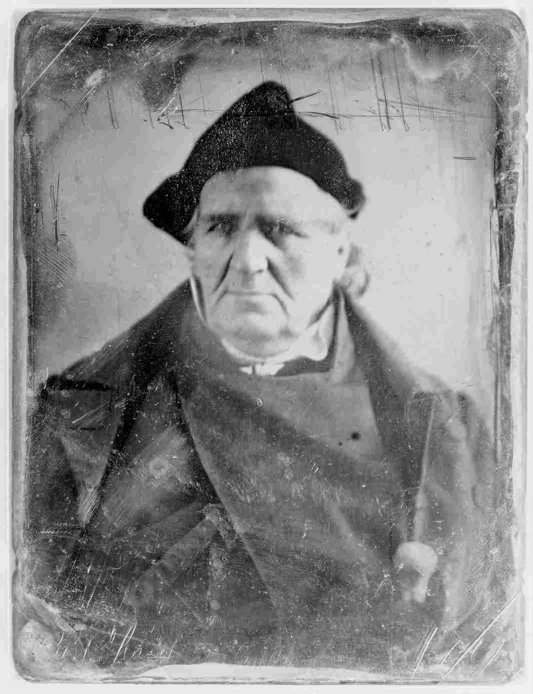 Philander Chase, (1775-12-14 - 1852-09-20), Bishop, Episcopal Church, USA